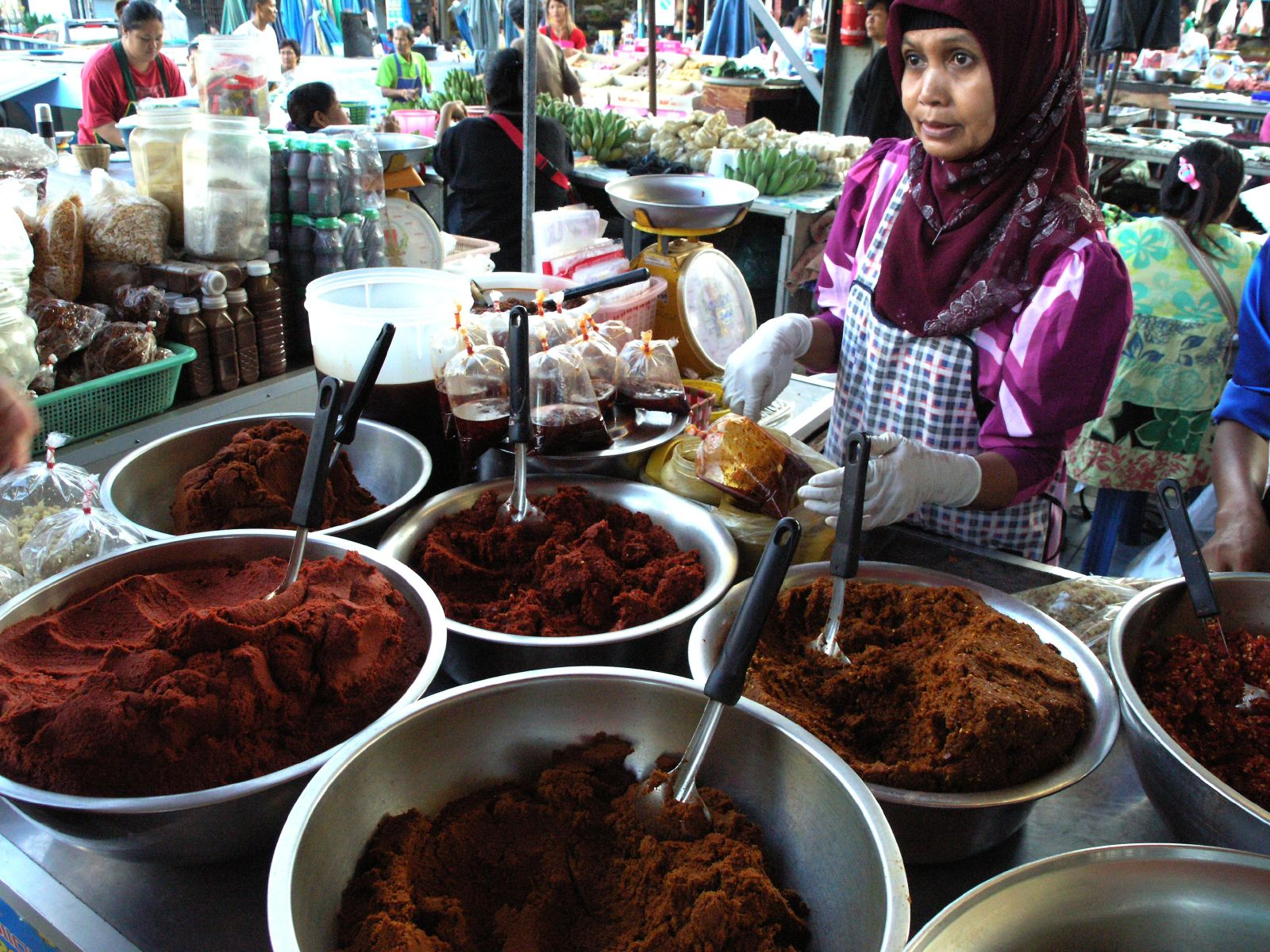 Thai curry paste at the market so good I brought some home